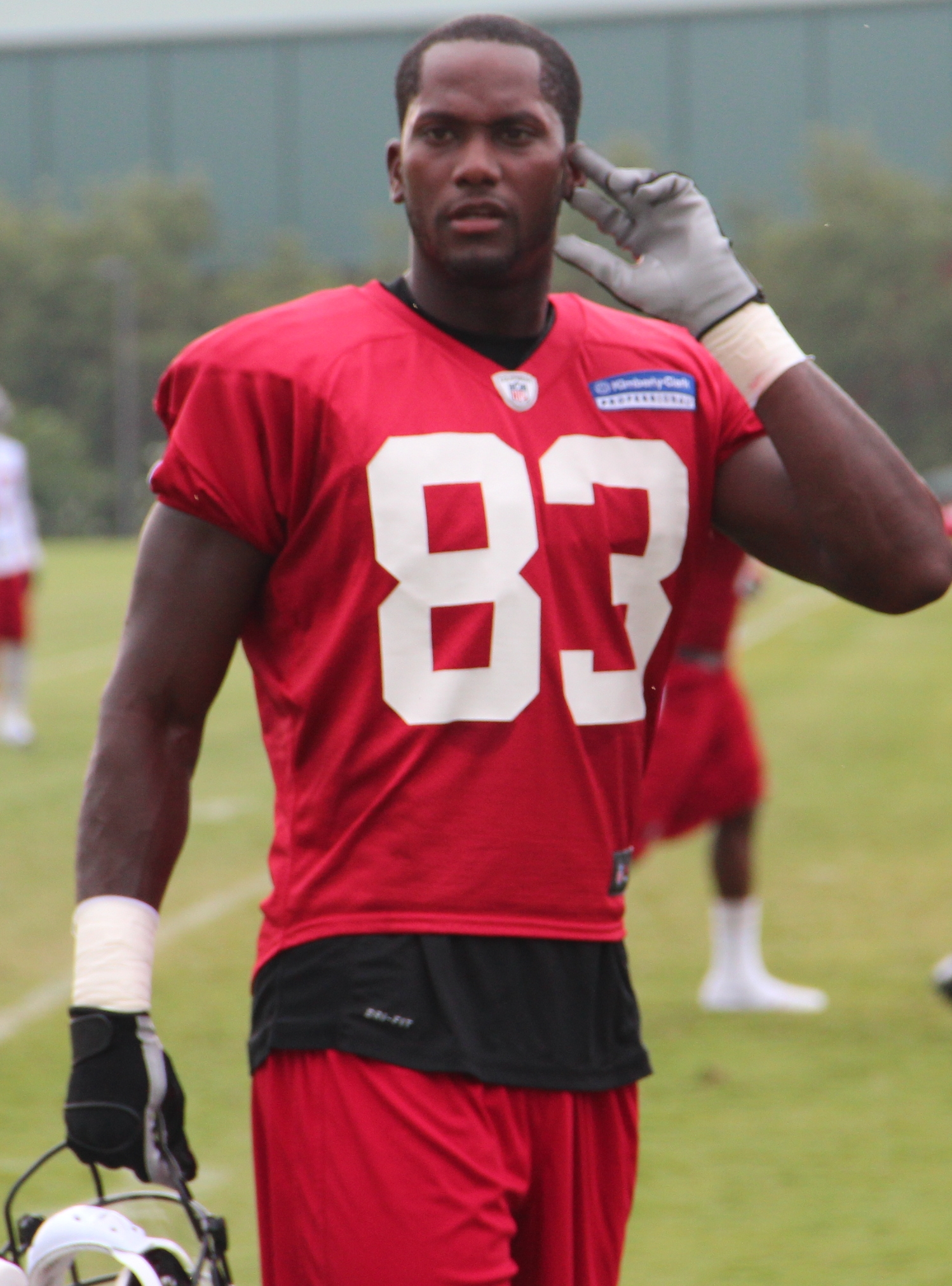 Harry Douglas in 2013